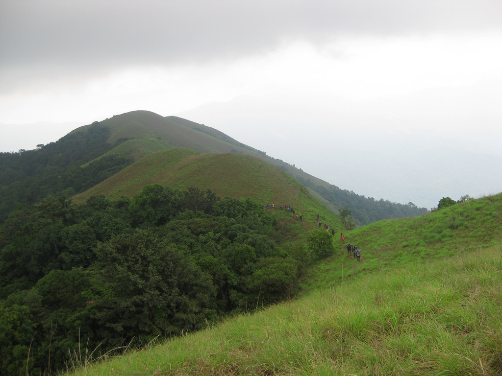 20 members of CTC returning from peak of Ombatta Gudde in Kabbinhole Reserved Forest, Karnataka, April 12, 2009